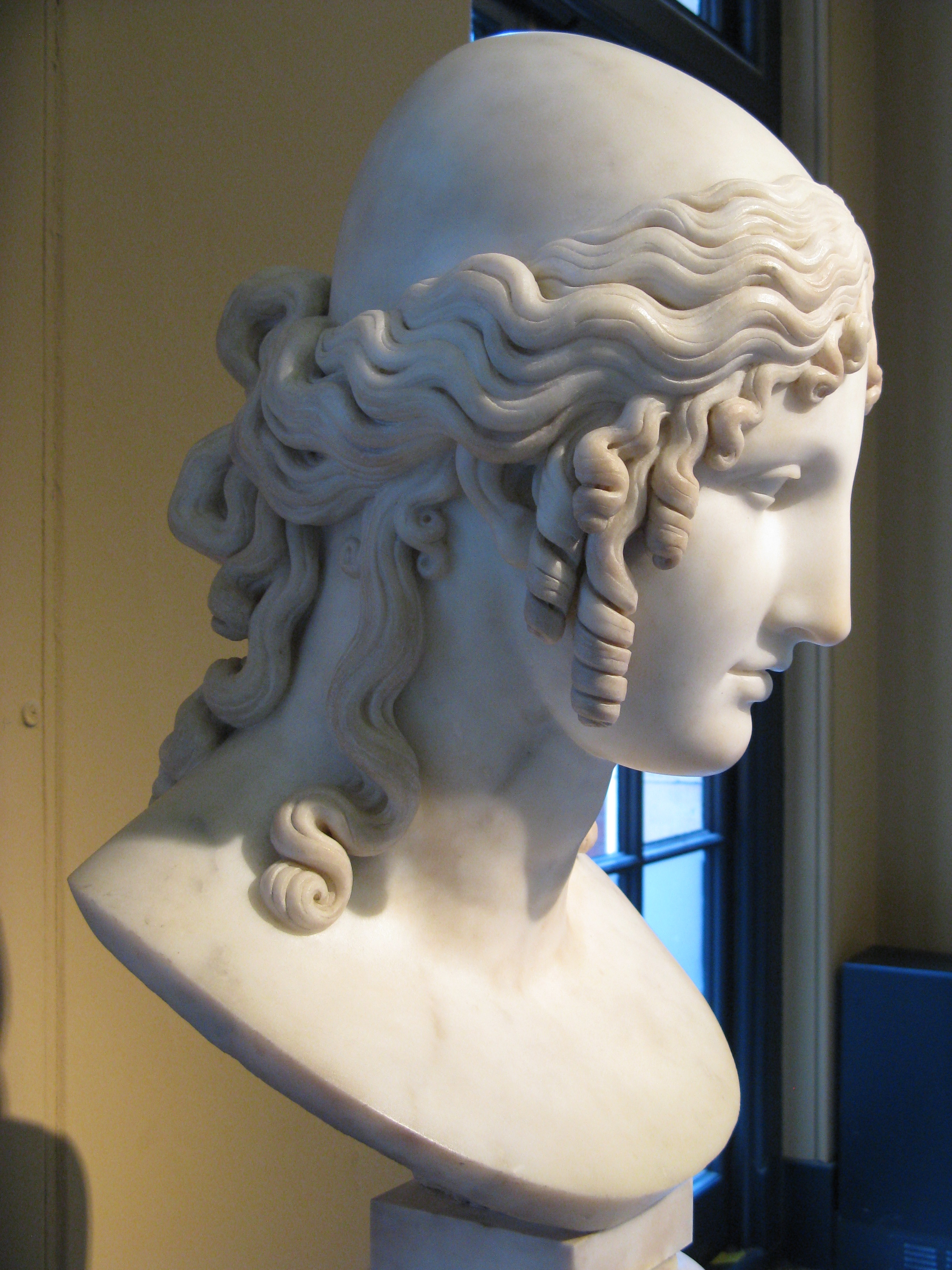 Bust of Helen of Troy by Antonio Canova at Victoria and Albert Museum.